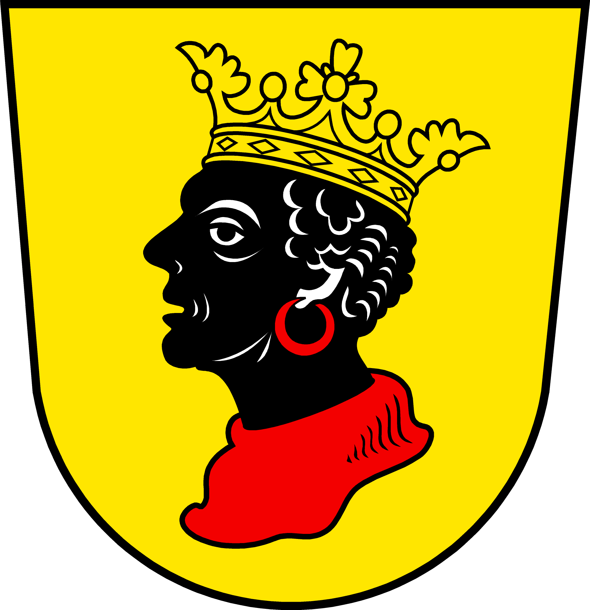 Coat of arms of the Prince-Bishopric of Freising. Blazon. Or, a moor's head proper, crowned or and collared gules, with an earring gules.